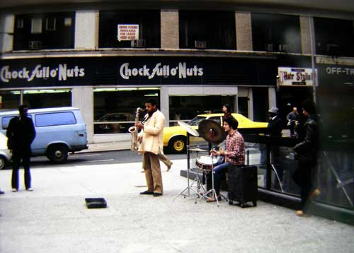 Arthur Rhames busking on Broadway c.1980